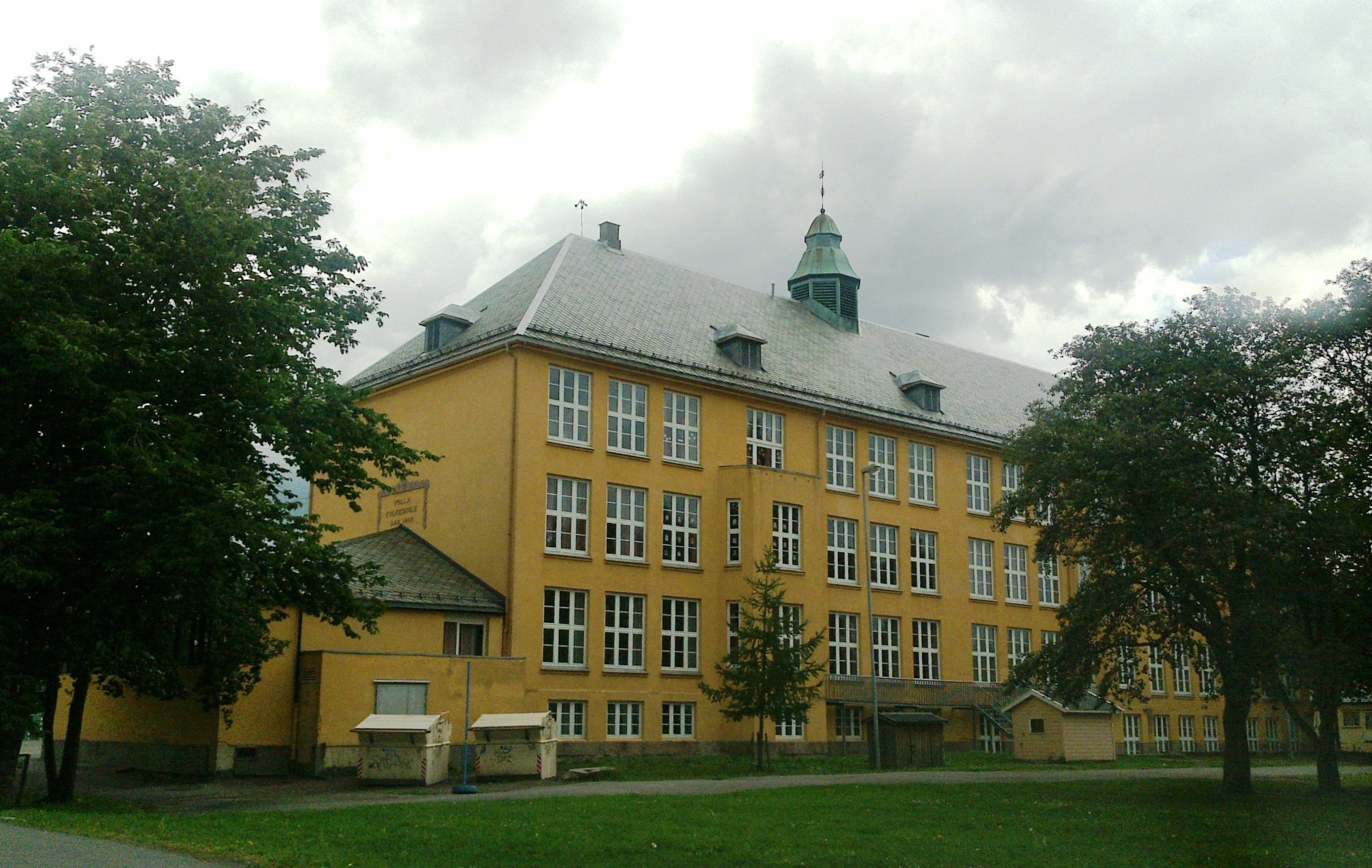 Image from the Central part of Lillestrøm city (Skedsmo municipality), just east of Oslo (Norway)